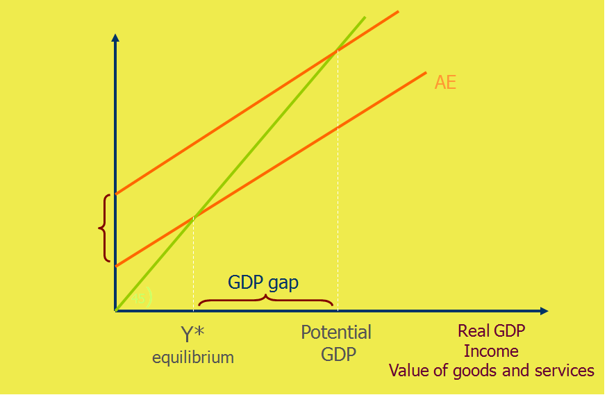 Keynesian cross and growth in expenditure